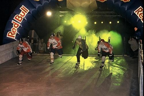 Red Bull Crashed Ice Prague 2005